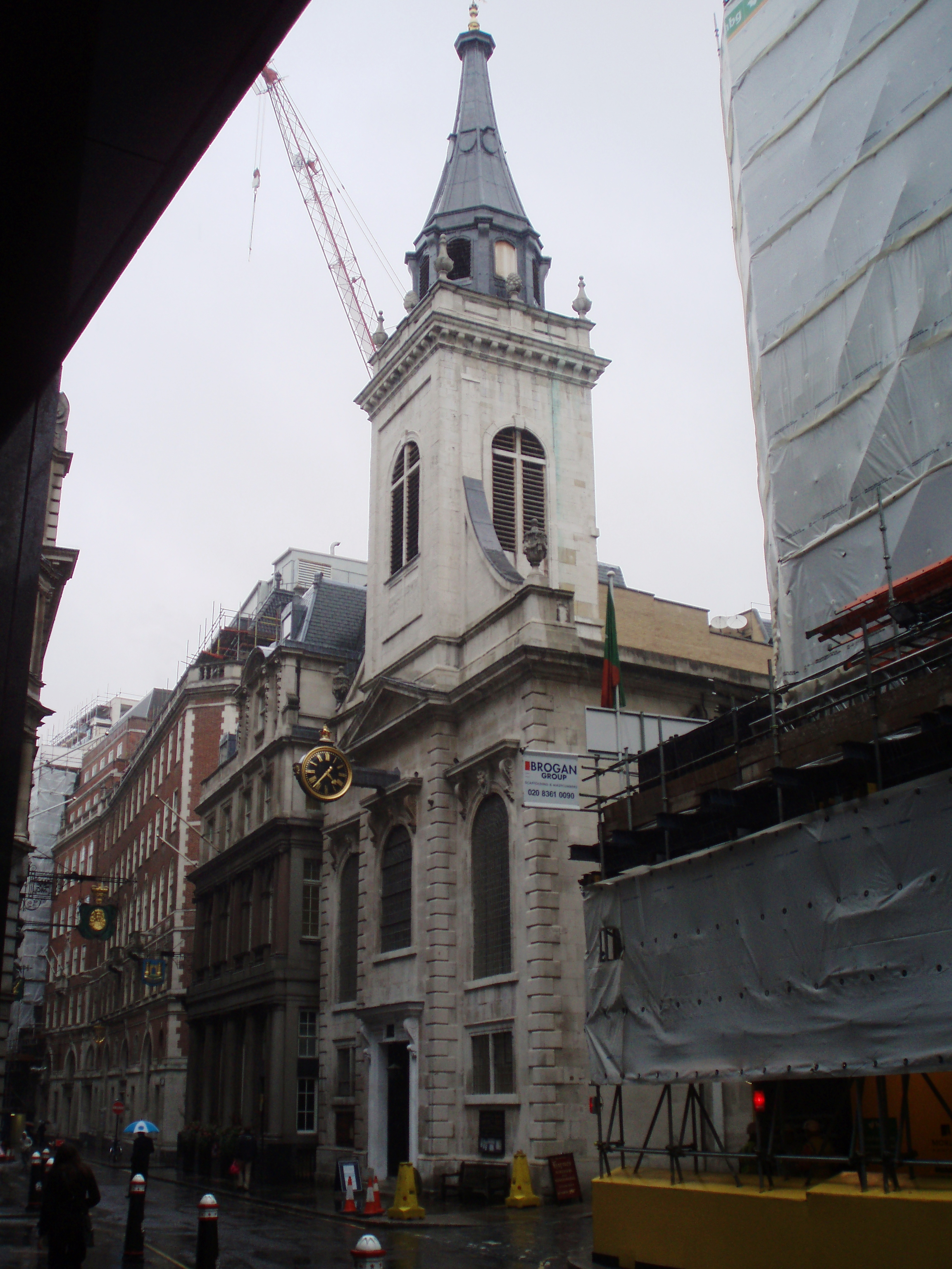 St Edmund the King and Martyr, London